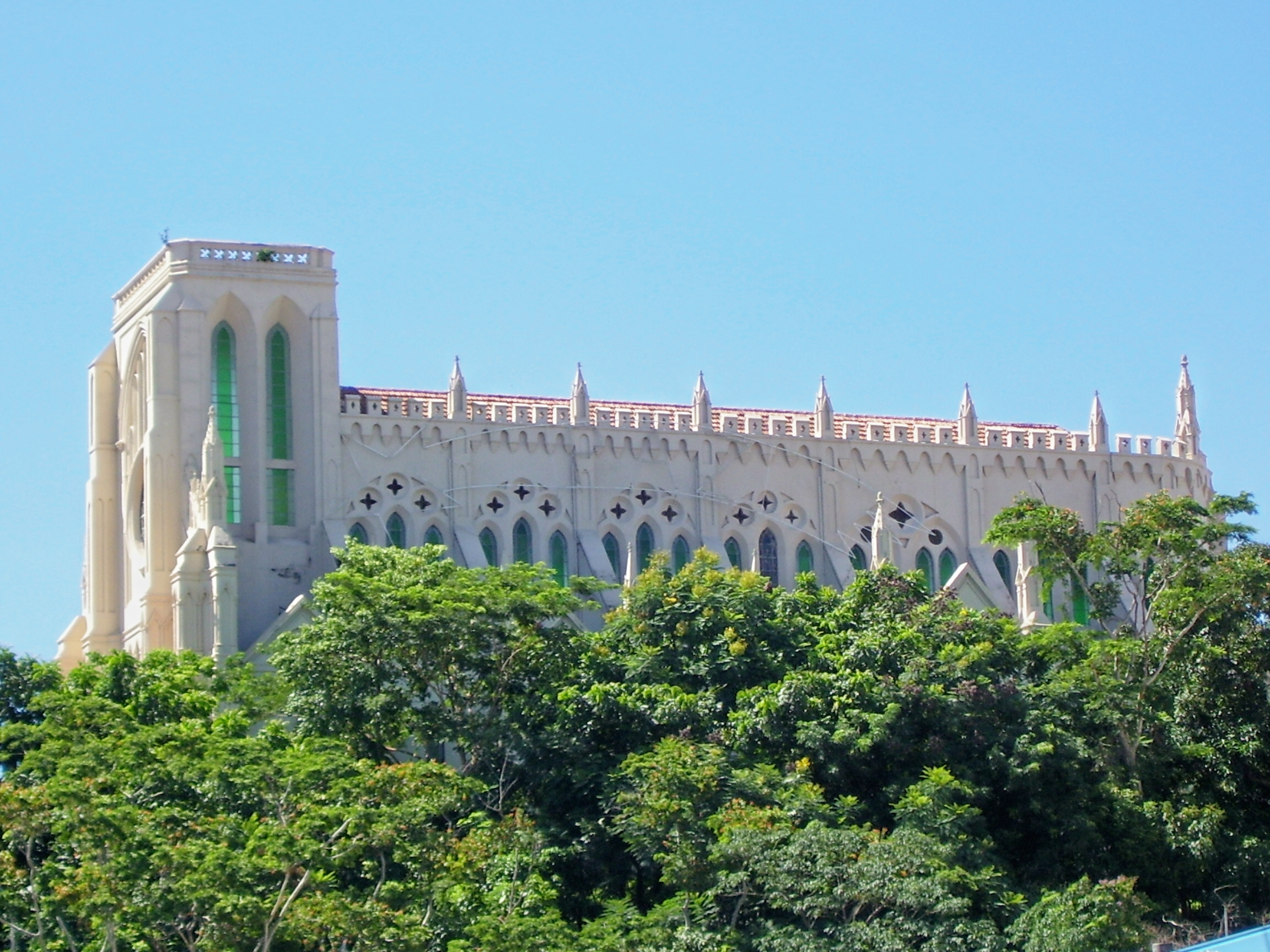 Church of Our Lady of "Bom Despacho", Cuiabá, Mato Grosso, Brazil.